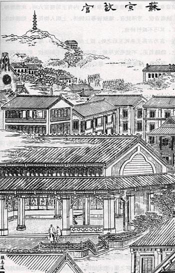 Wang Tao's drawing of Edinburgh in 19th century